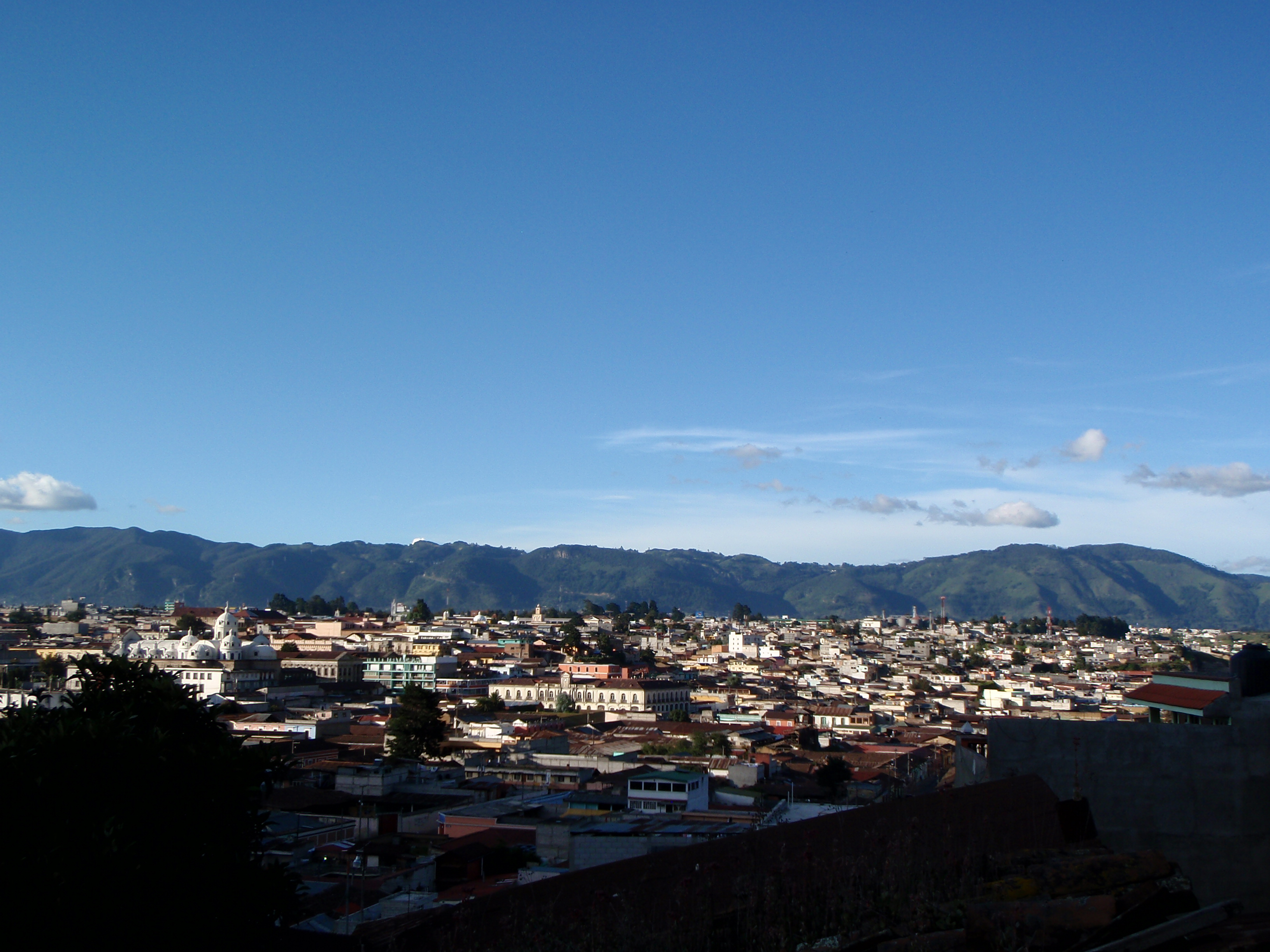 Skyline of Quetzaltenango from the surrounding mountainside in 2009.